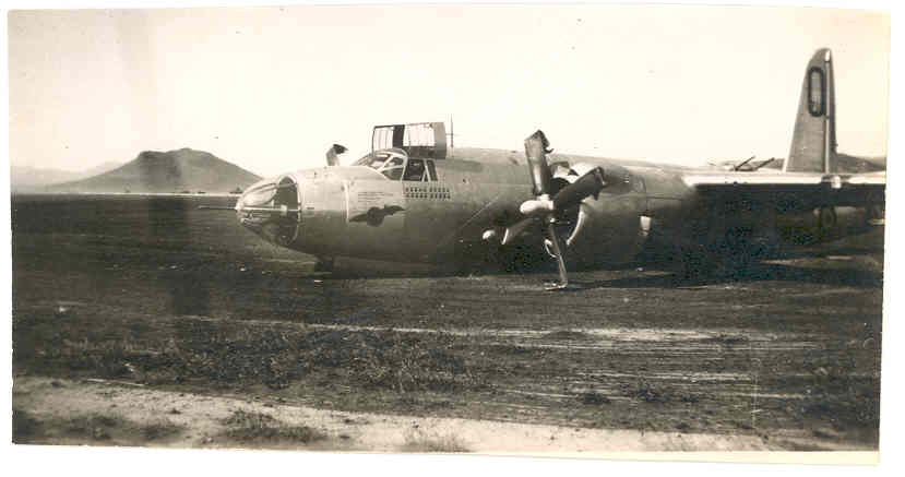 A downed plane of the French GBM 1/22 unit somewhere in the deserts of northern Africa. Photo by: Ronald Macklin 34th Bomb Squadron 17th Bomb Group